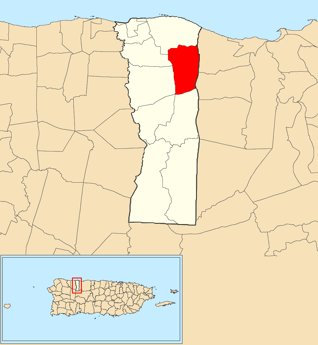 Corcovado, Hatillo, Puerto Rico locator map